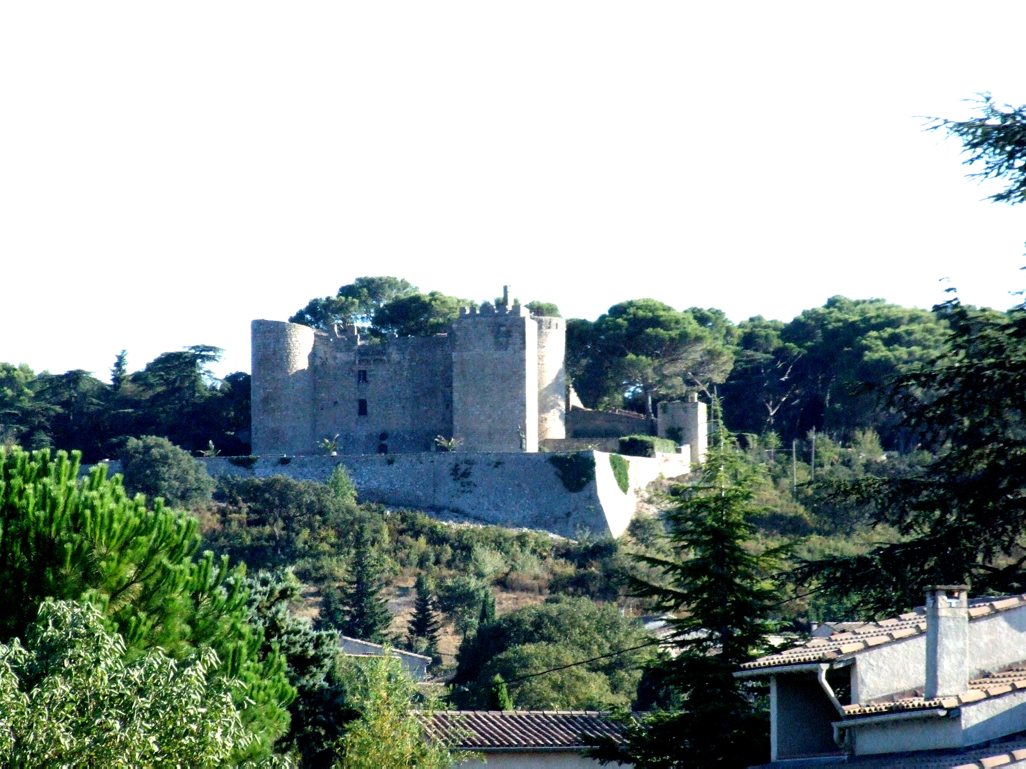 The village of Boissières, Gard is in the Vaunage to the south ofNageswhich is dominated by the two Gaulish oppidums of Roque de Vif, and of Nages on the Roque de Vif hill. The chateau of Bossières, constructed in 1577 in the mediaeval style seen here 800m across the valley seen from the Solorgues